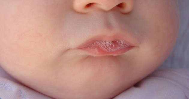 Little baby with saliva on his lips